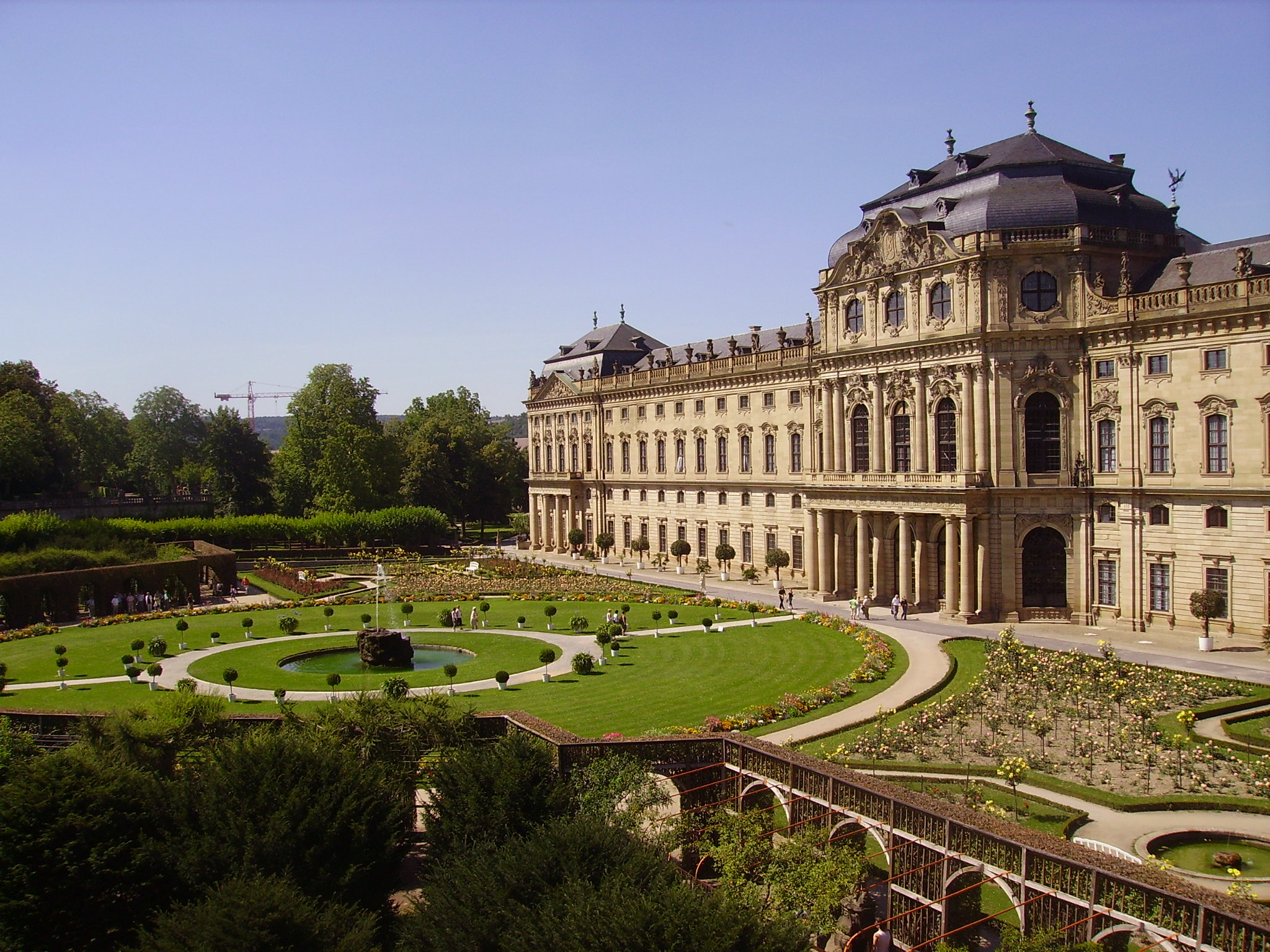 Backside of the Residence, Würzburg